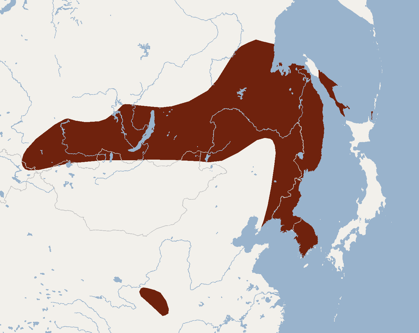 from